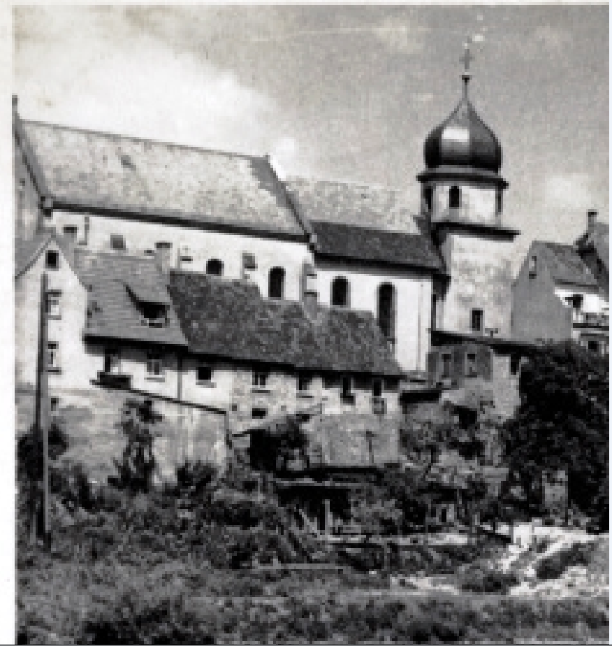 Katholische Pfarrkirche St. Wendelin